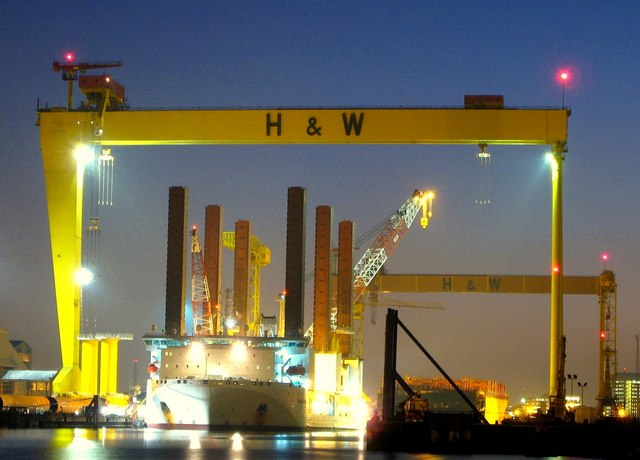 'Resolution' in Belfast. The highly unusual ship 'Resolution' in the building dock at Harland and Wolff in Belfast beneath the gantry cranes 'Samson' and 'Goliath' 599214 The ship is used in the construction of offshore windfarms and was in Belfast to collect turbine foundations that had been manufactured by Harland and Wolff for an offshore windfarm in the Solway Firth . Its unusual shape comes from the six 130m legs which, once on site, jacks the vessel out of the water and provides a stable working platform to construct windfarms at sea. for some technical info on the Resolution.